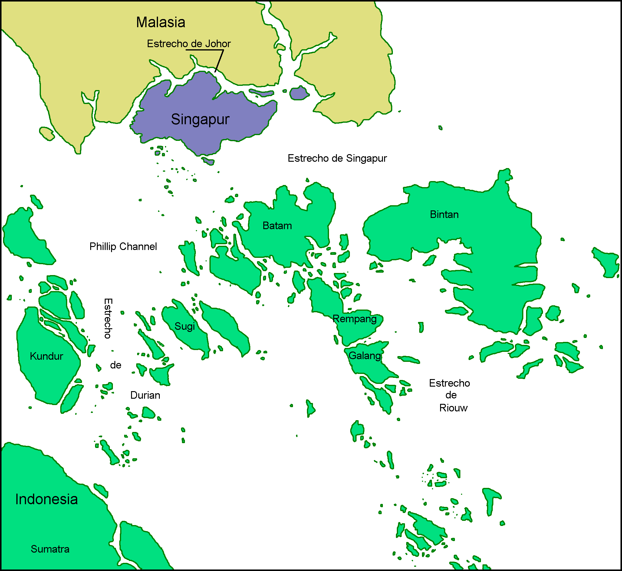 A map of the Singapore Strait with Spanish labels.